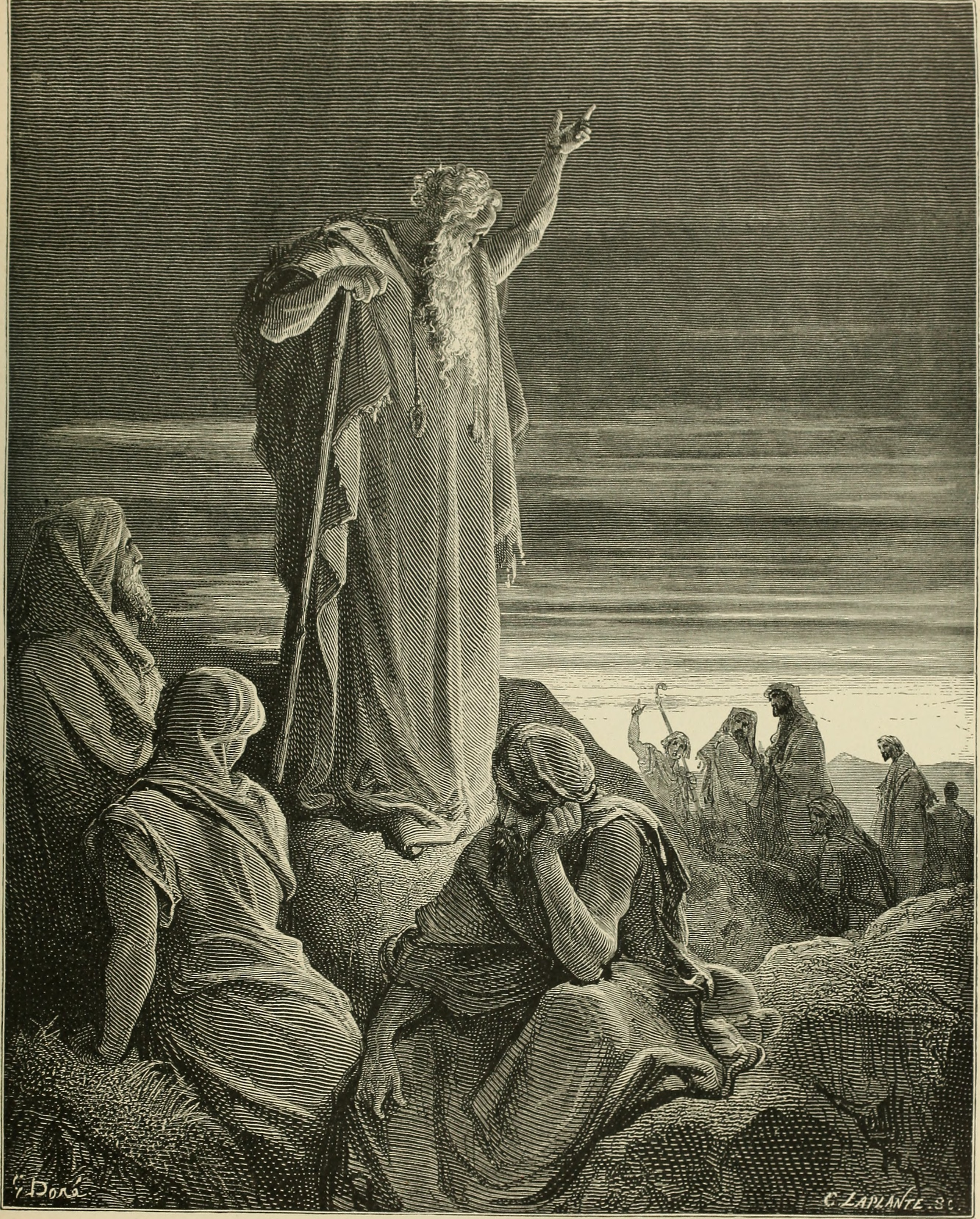 Title: The Bible panorama, or The Holy Scriptures in picture and story Year: 1891 (1890s) Authors: Foster, William A. (from old catalog) Subjects: Publisher: Text Appearing Before Image: d thee to them, the Lord said, because they are adisobedient people; both they and their fathers have disobeyed me. Yet thoushalt tell them my message whether they will hear or whether they will nothear. And be not thou afraid of them, though they be fierce as serpents andscorpions; or like briars and thorns that would tear thy flesh; fear them not,,for I will make thee strong and brave when thou standest before them, andthou shalt speak all the words that I tell thee to speak against them. Ezekiel then spoke to the people, and showed them by signs what would happen to Jerusalem; how Nebuchadnezzar would come up with his army against the city, and build forts around it, and besiege it for many days, and at last destroy the city. And some of the captives to whom Ezekiel was speaking, came and said, If the Lord is determined to destroy us for the sins we have done, what can we do, and who can save us ? Ezekiel answered them, This yon can do: Repent of your sins and cease doing evil. 182 Text Appearing After Image: EZEKIEL PROPHESIES THE FALL OF JERUSALEM TO THE PEOPLE BY THE RIVER CHEBAR. 183 I /IKIEL I. 1.